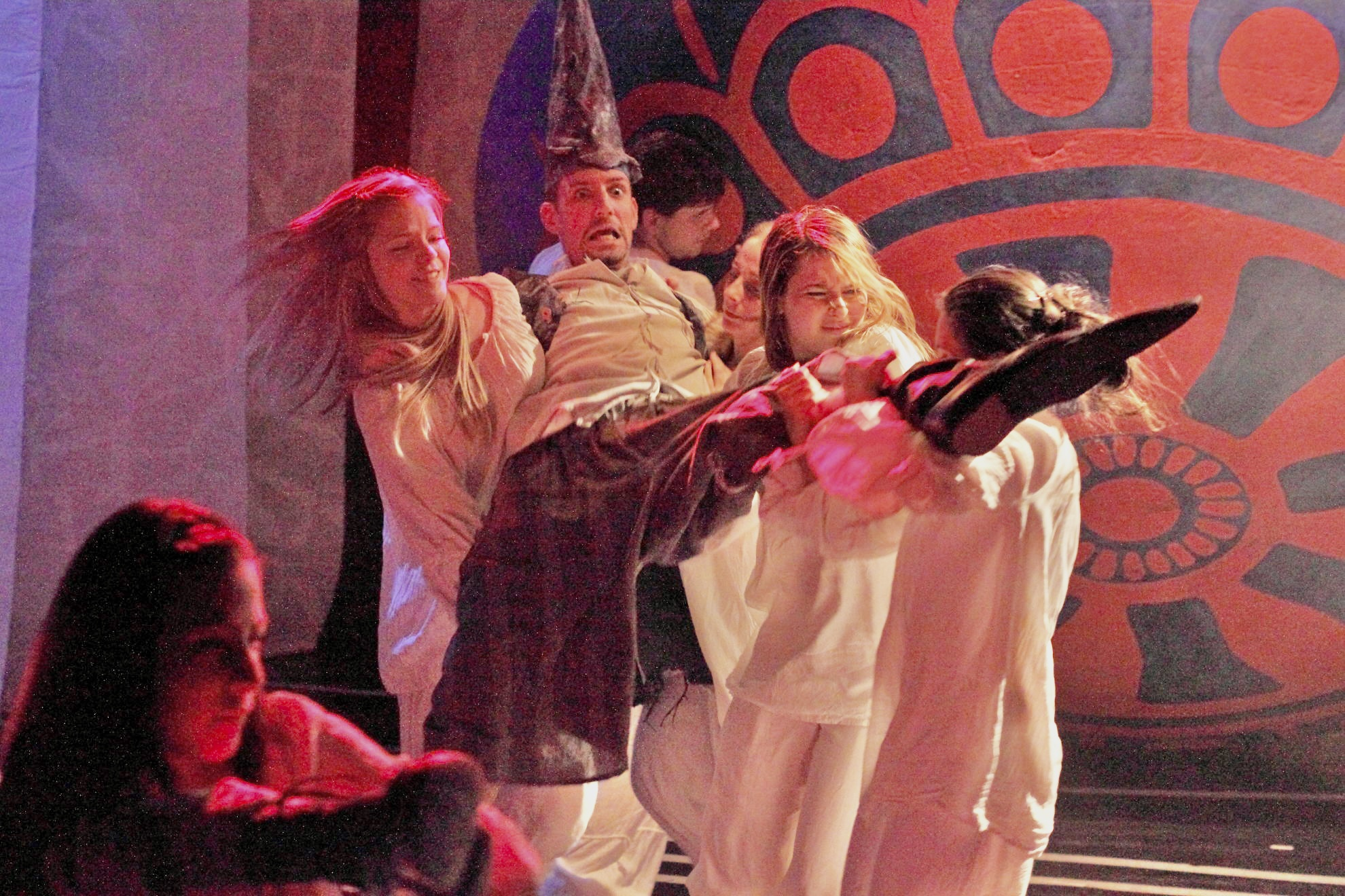 Holdbeli csonakos theatrical performance by JESZ.